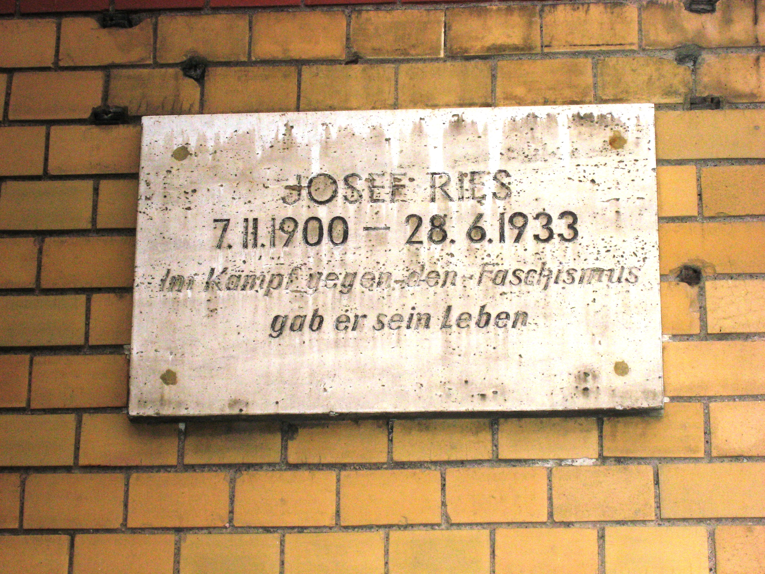 Memorial tablet Josef Ries, Erfurt, Josef-Ries-Strasse